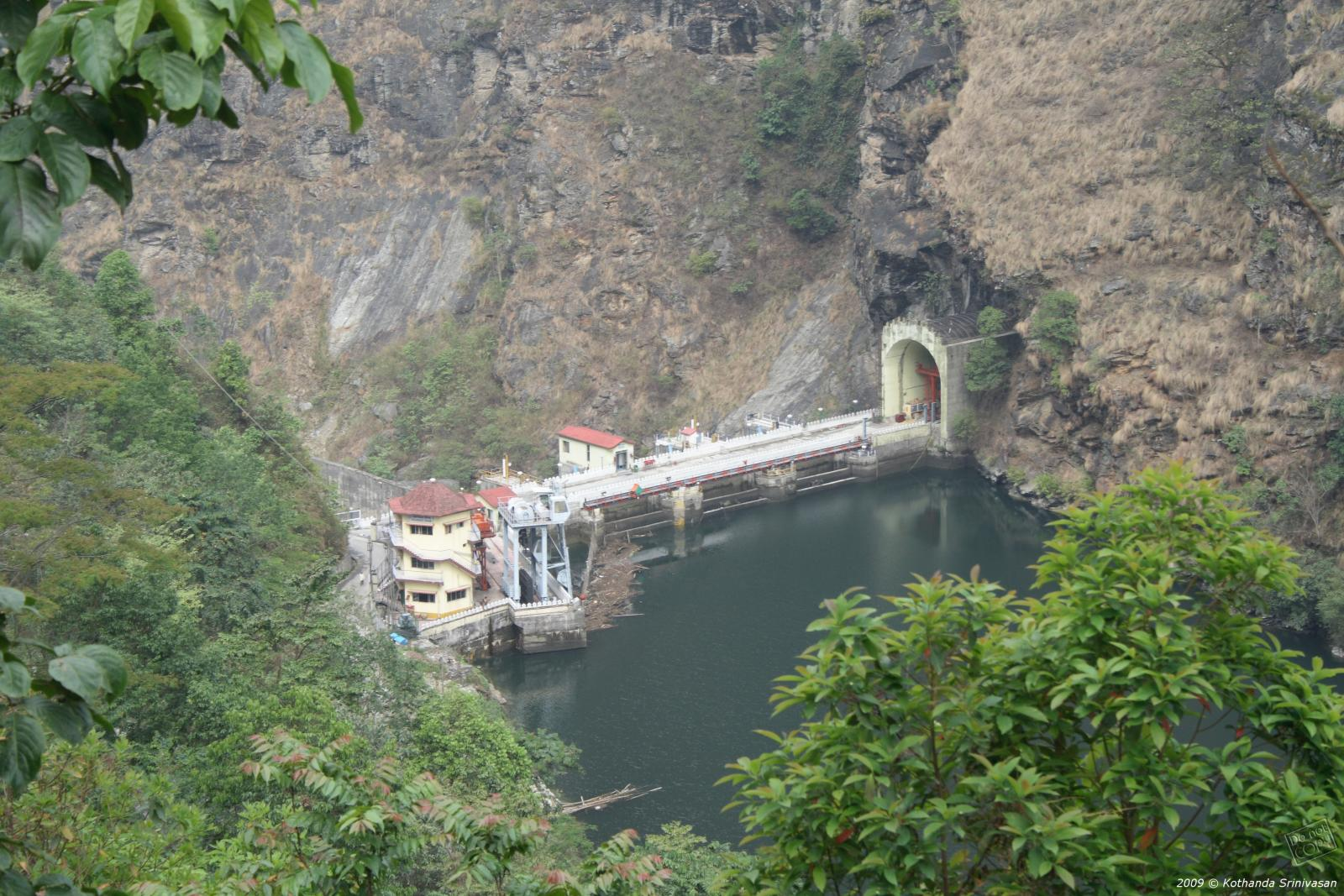 Panaromic view of Rangit Dam and Reservoir on Rangit.